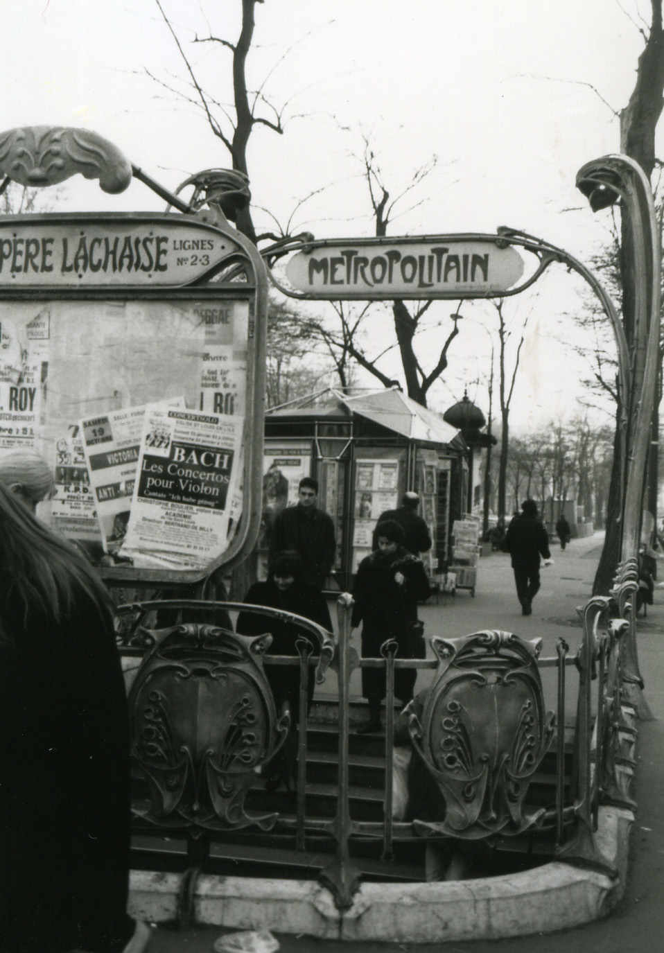 Paris Metro at Père Lachaise station in 1991.